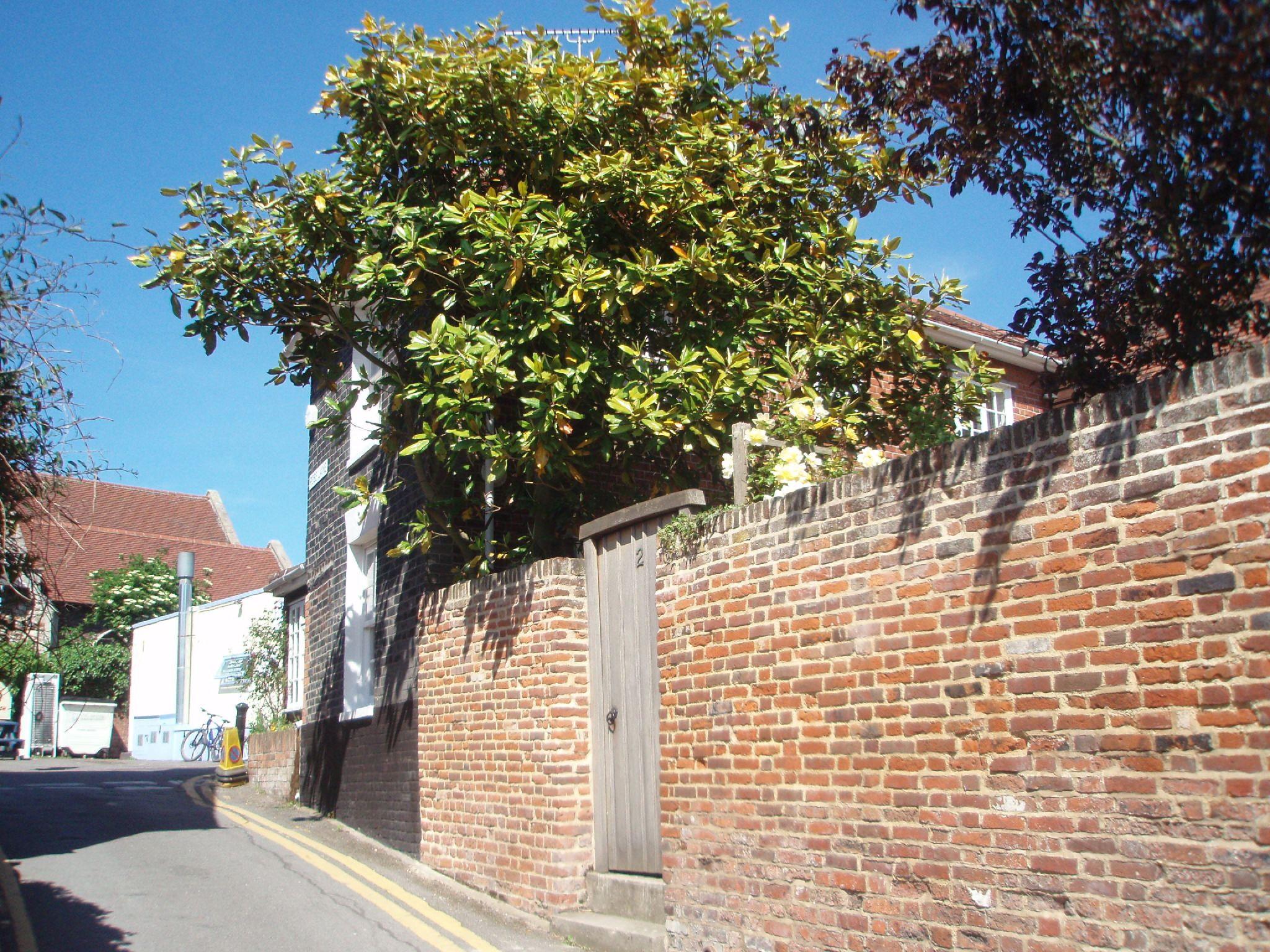 Brick wall on Rose Lane, Wivenhoe, Essex. Looking towards the junction with East Street. Actress Joan Hickson (OBE), who played Miss Marple in the well known tv-series, lived here from 1958 until 1998. A plaque (not seen here) has been erected on the house where she lived for 40 years.